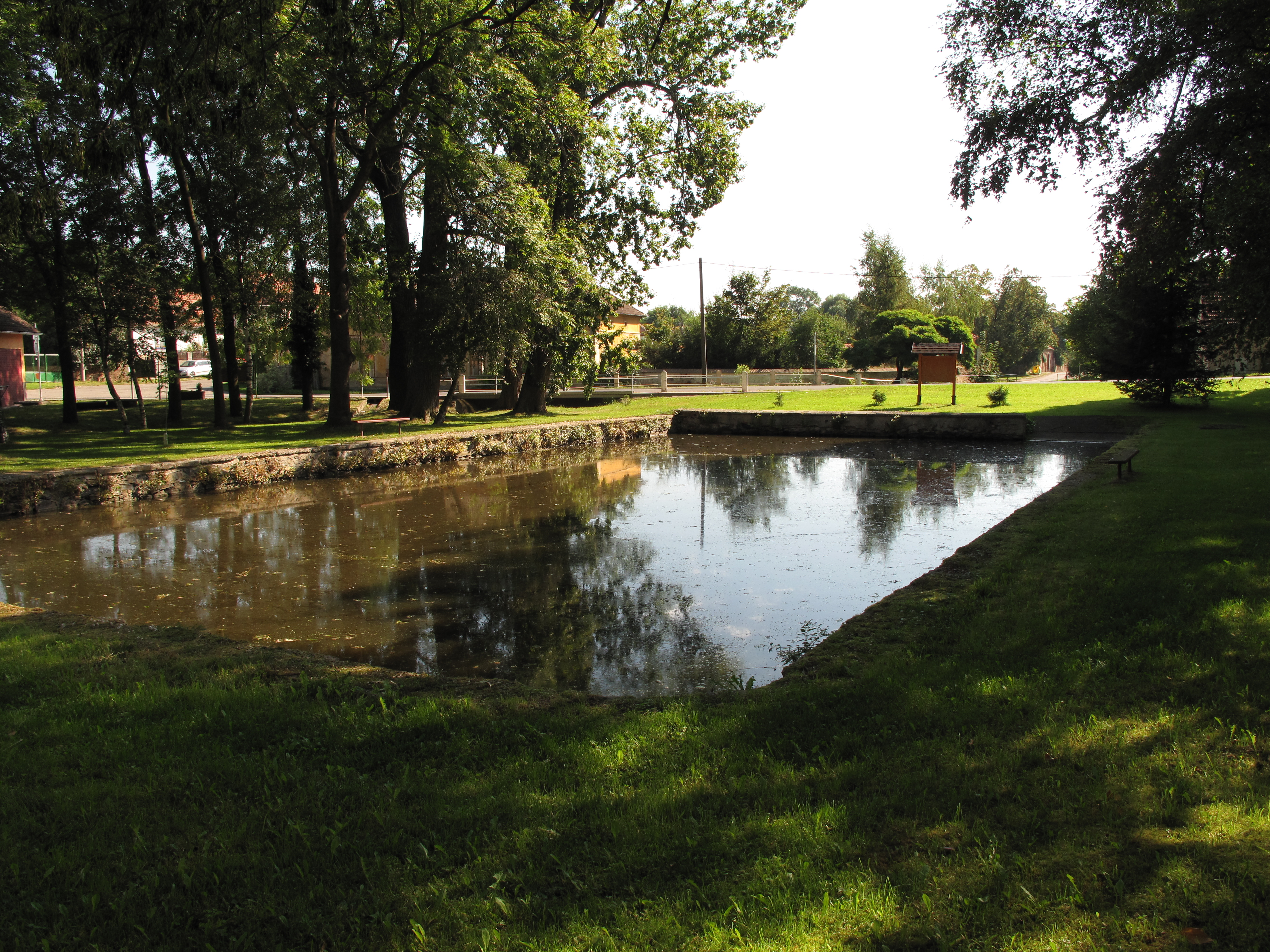 Water reservoir at the village square in Chotouň village (Chrášťany municipality), Kolín District, Czech Republic.